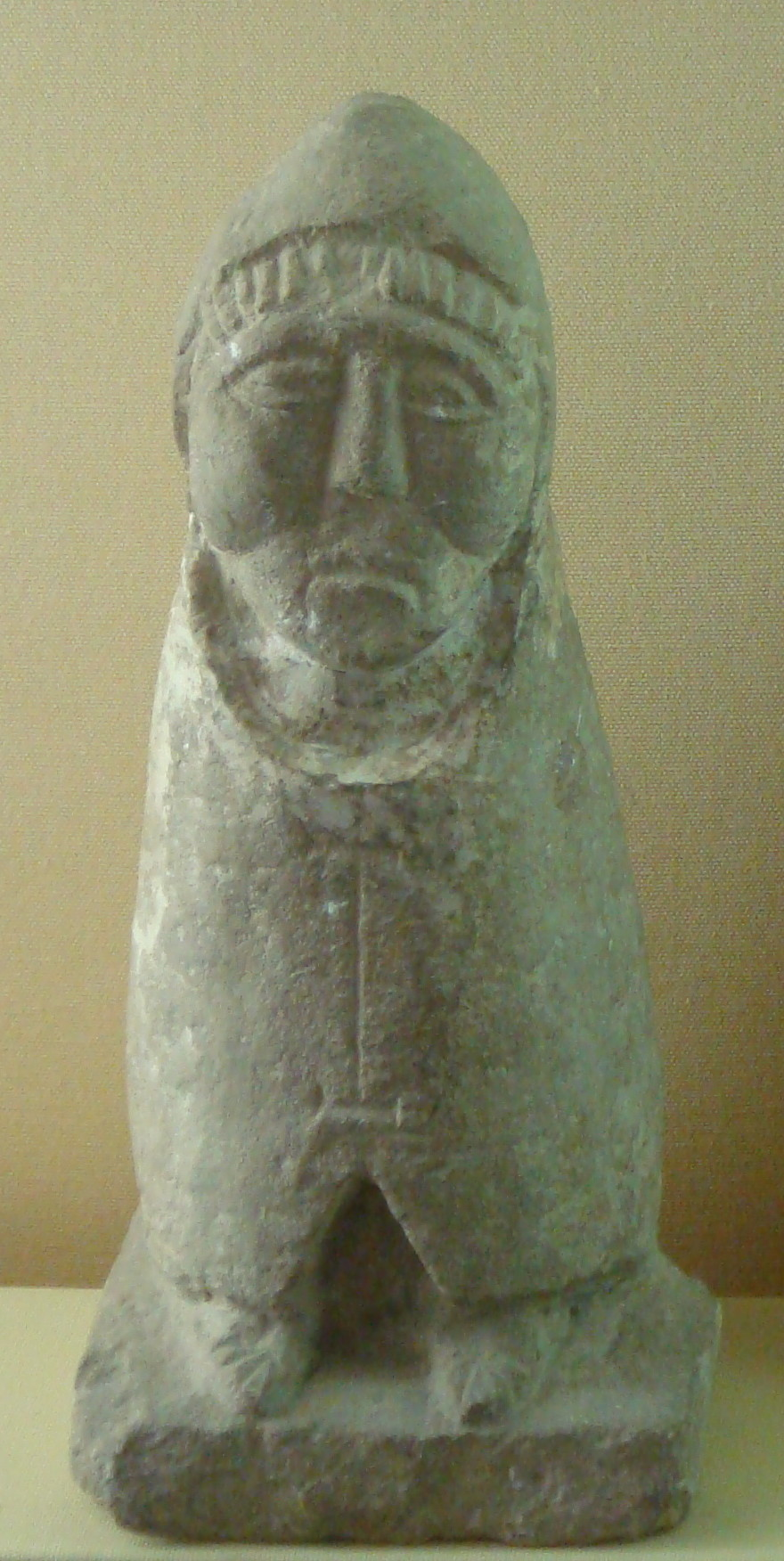 Statue of Telesphorus, a Celto-Greek god, disovered in Moulézan in 1884. Now exhibited in the Musée Archéologique de Nîmes.